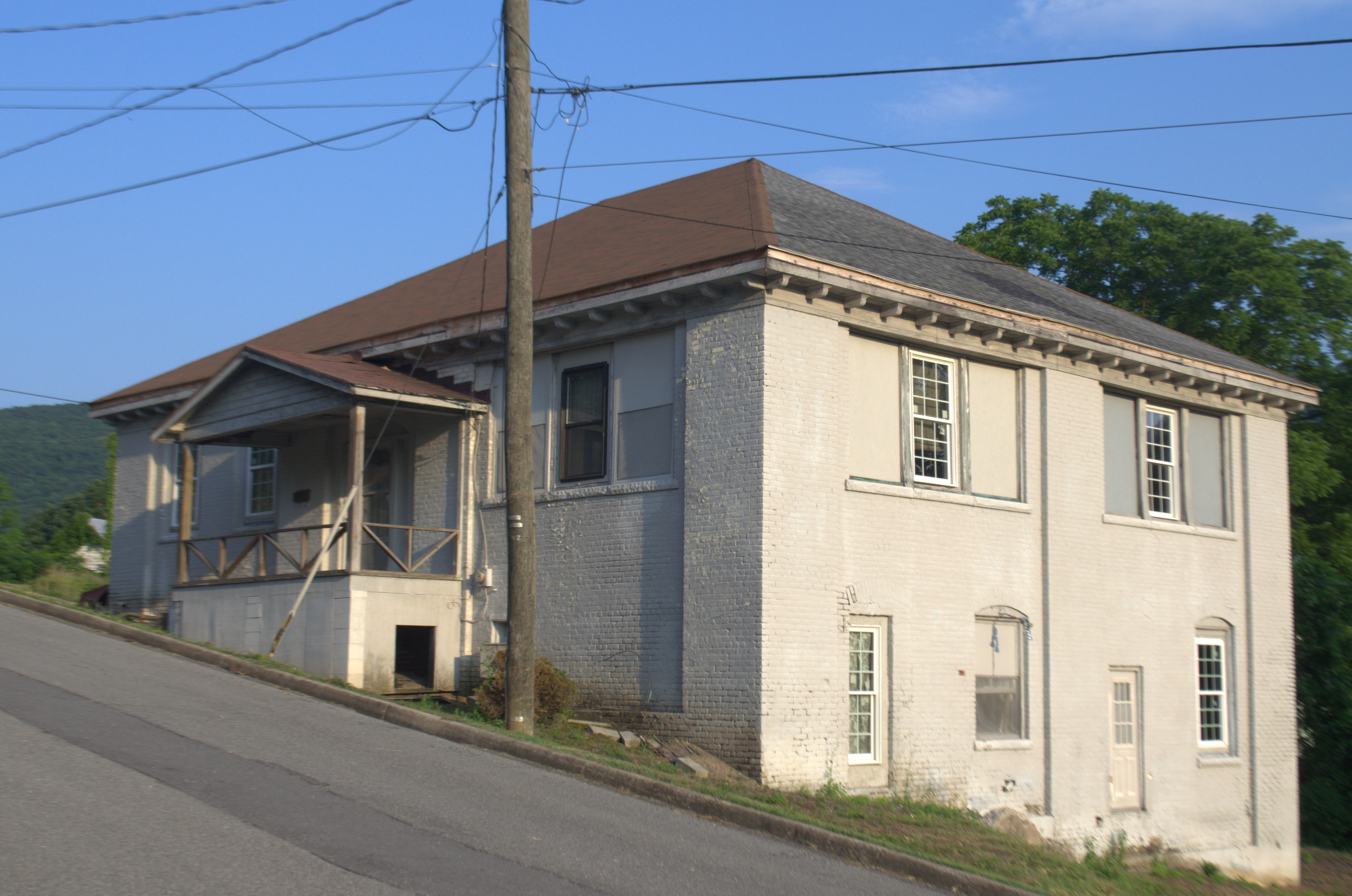 Previous building of the Jefferson School in Clifton Forge, Virginia, constructed in 1902.